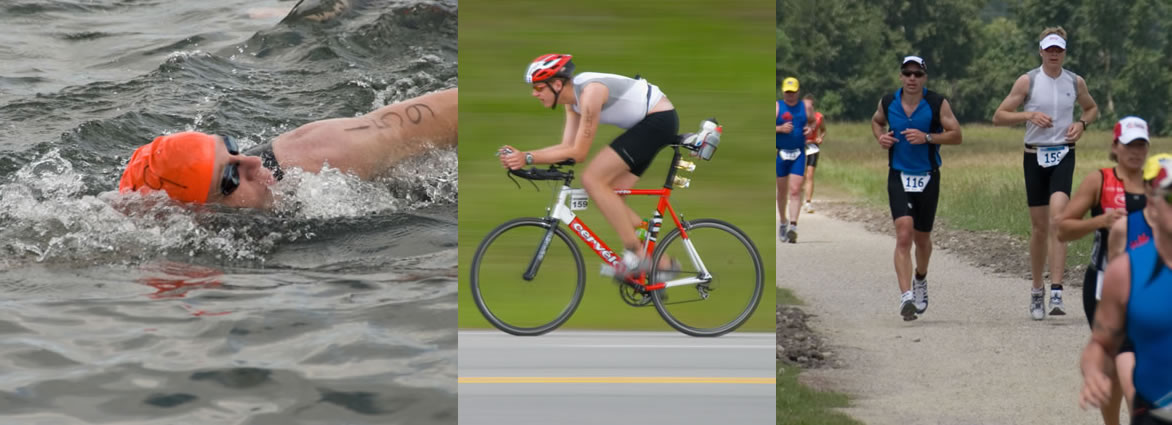 Triathlon photographs from the Chinook-Half-Ironman Calgary Alberta Canada, June 23 2007. more photos of the race visit